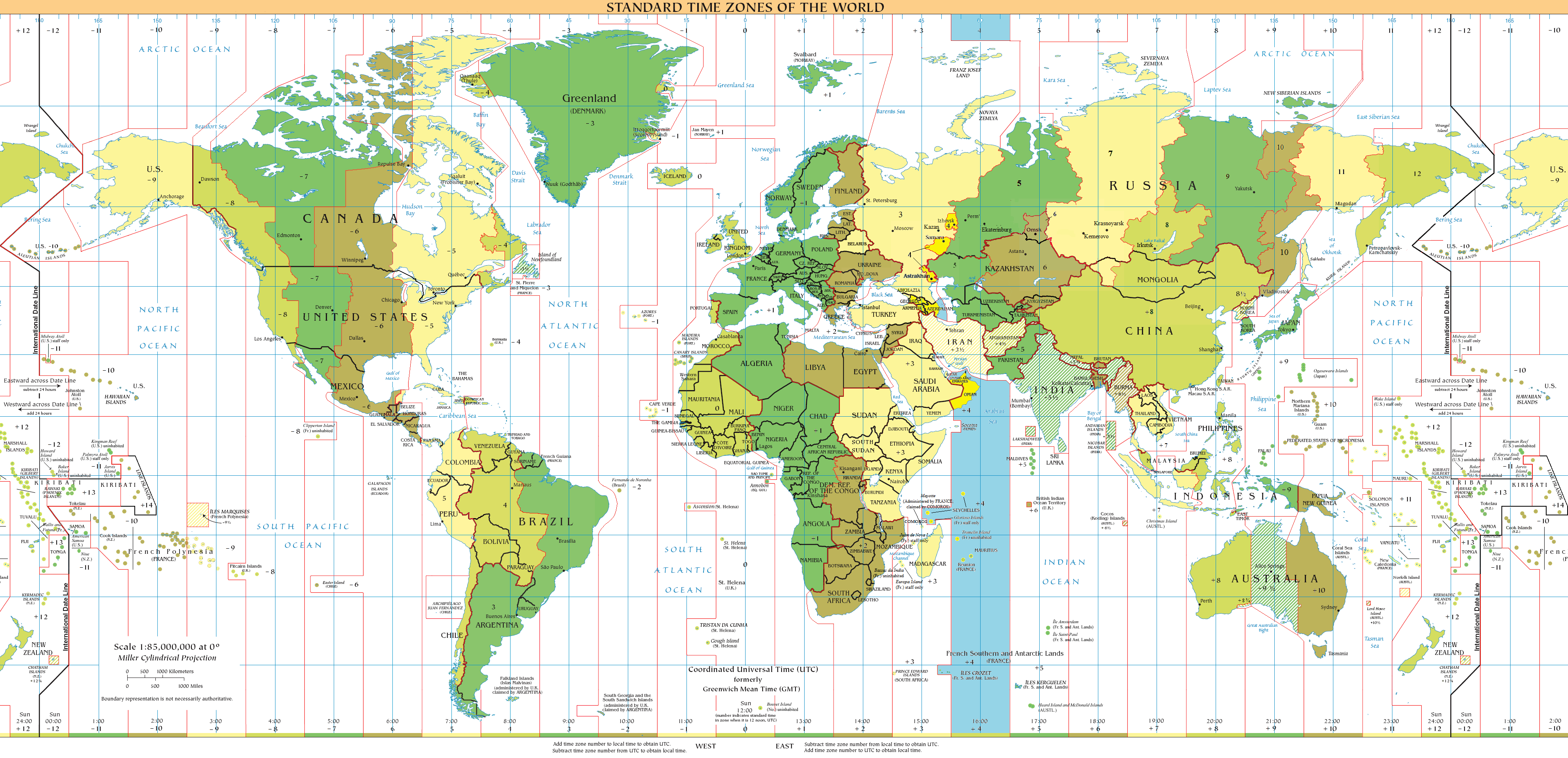 Time zone UTC+4:00 (2011)